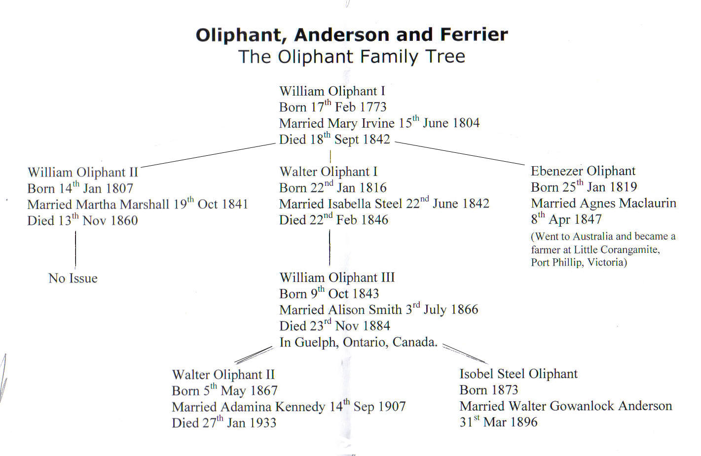 This is a family tree of the Oliphant family associated with the publishing firm, Oliphant, Anderson and Ferrier. All members of the family mentioned here are long dead, and the information is compiled from births, deaths and marriages information publically available at the General Register Office for Scotland, ScotlandsPeople Centre in Edinburgh.